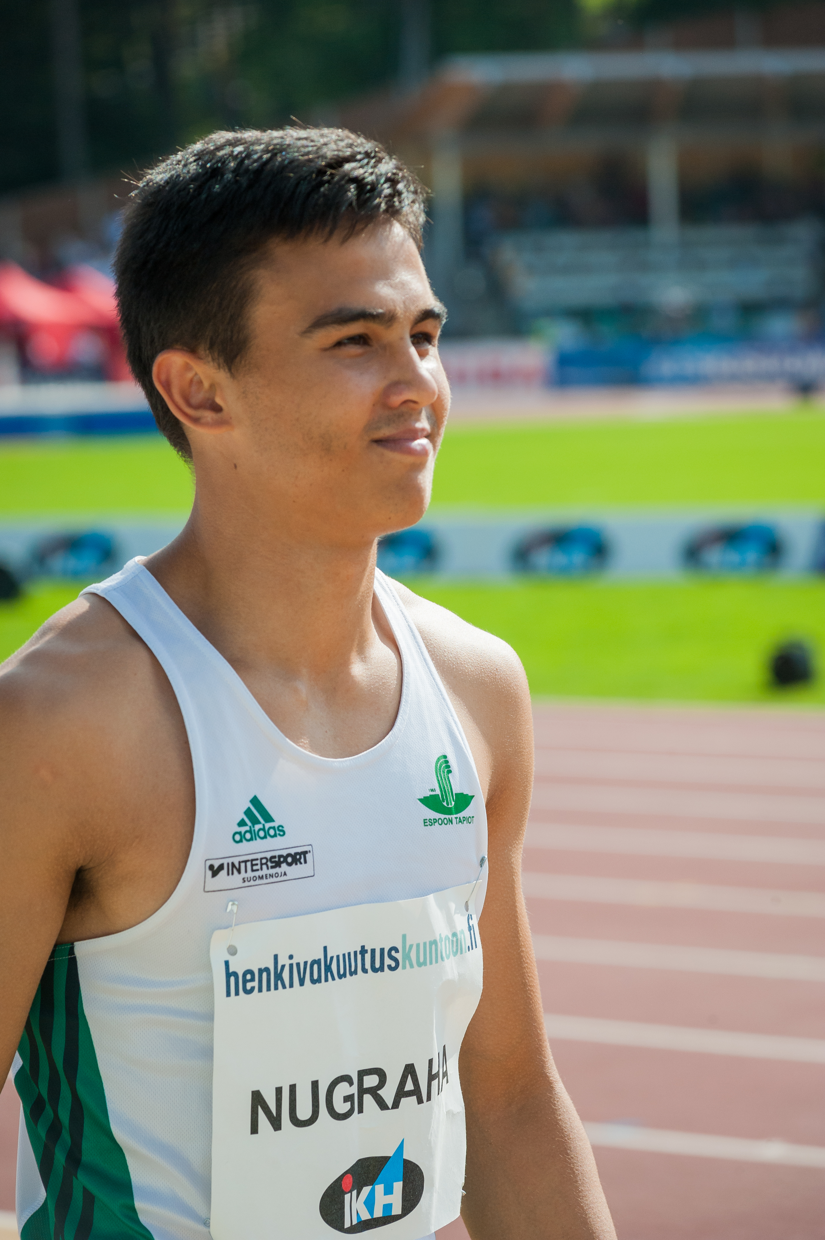 Men's triple jump competition at the 2018 Kalevan Kisat, the Finnish championships in athletics, in Jyväskylä, Finland.